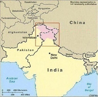 Kashmir region